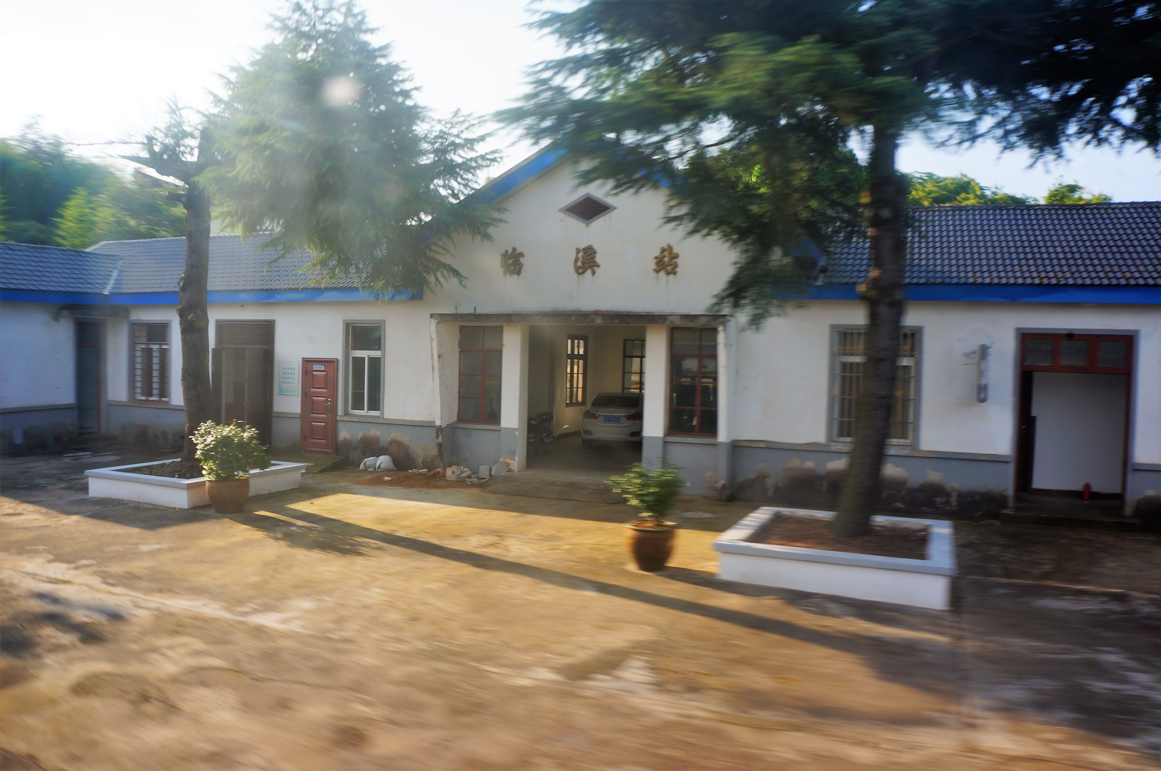 201806 Linxi Station